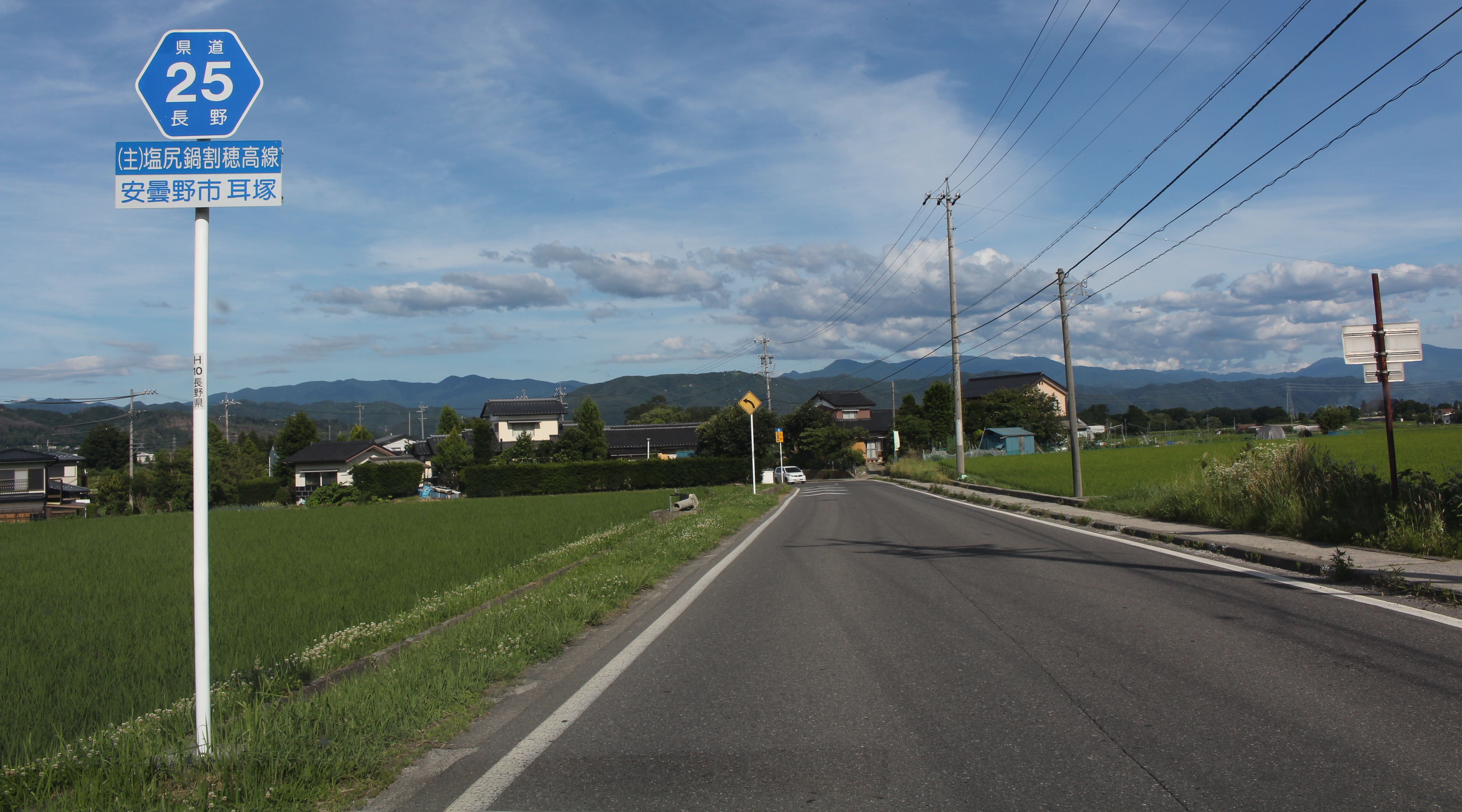 Nagano Prefectural Road Route 25, in Mimizuka, Azumino, Nagano prefecture, Japan.